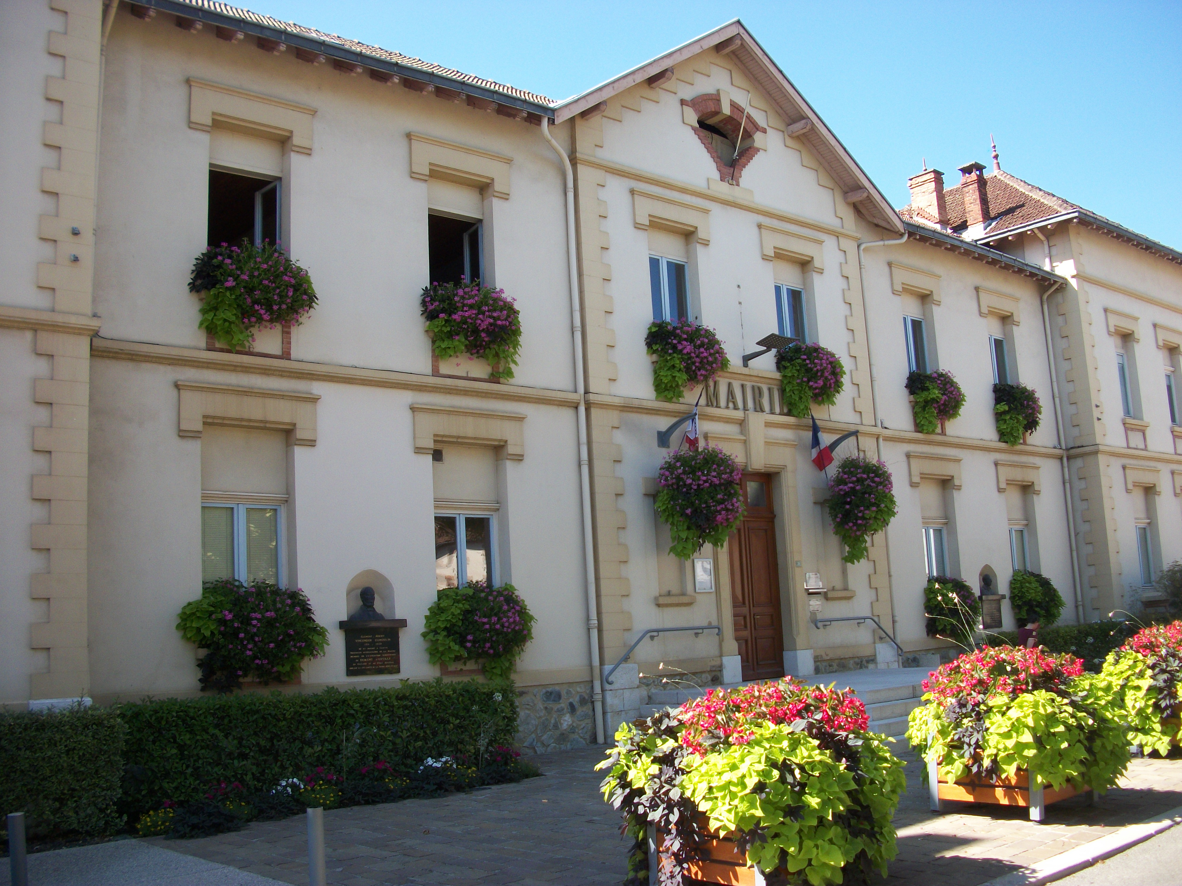 Townhall of Chatte, Isère, France Object location45° 08′ 33.79″ N, 5° 17′ 00.24″ E